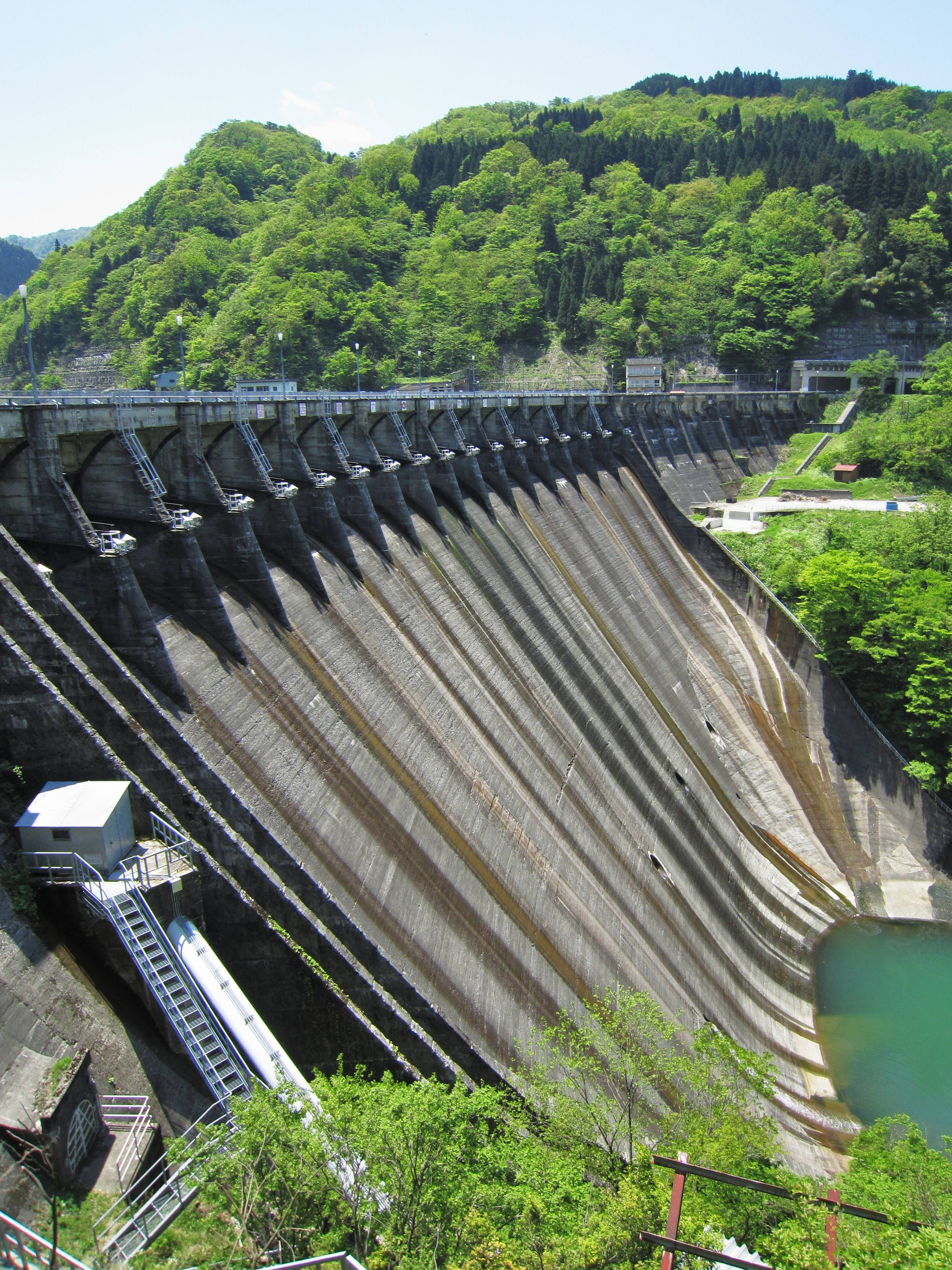 Komaki Dam.